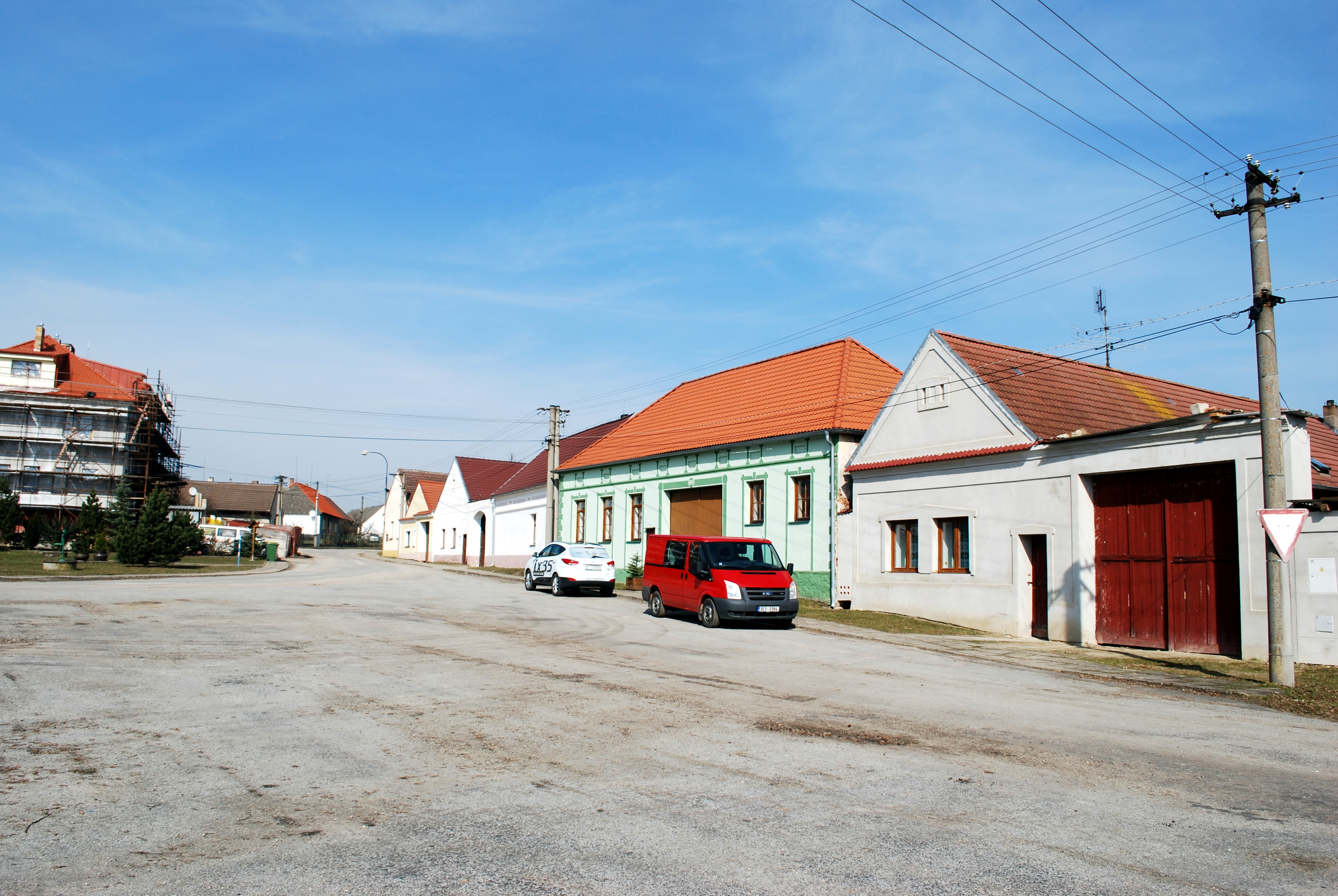 Ponědraž village in Jindřichův Hradec District, Czech republic. This photograph was taken within the scope of the 'Czech Municipalities Photographs' grant.